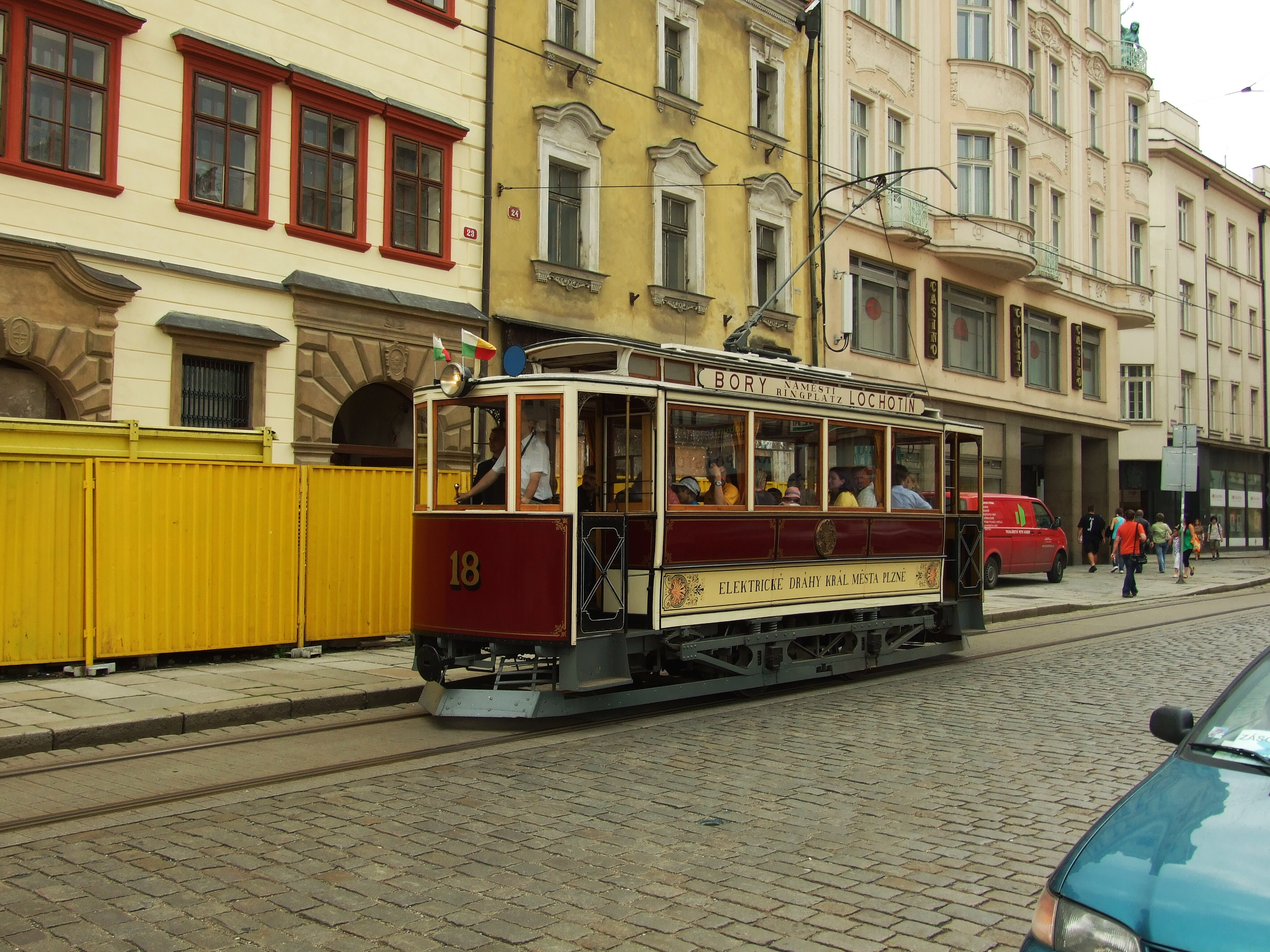 110th anniversary of public transport in Plzeň, Plzeň Region, CZ. Tram (#18).help